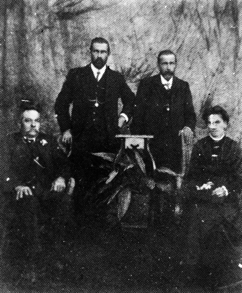 Smith family of Mapleton. Left to right, David Smith (snr.) Thomas David Smith; William James Smith and Amy Williams (nee Smith); David Smith came up to Mapleton and established an orange grove on his property on the Mapleton Falls Road. Mr Smith died in Mapleton in 1921.